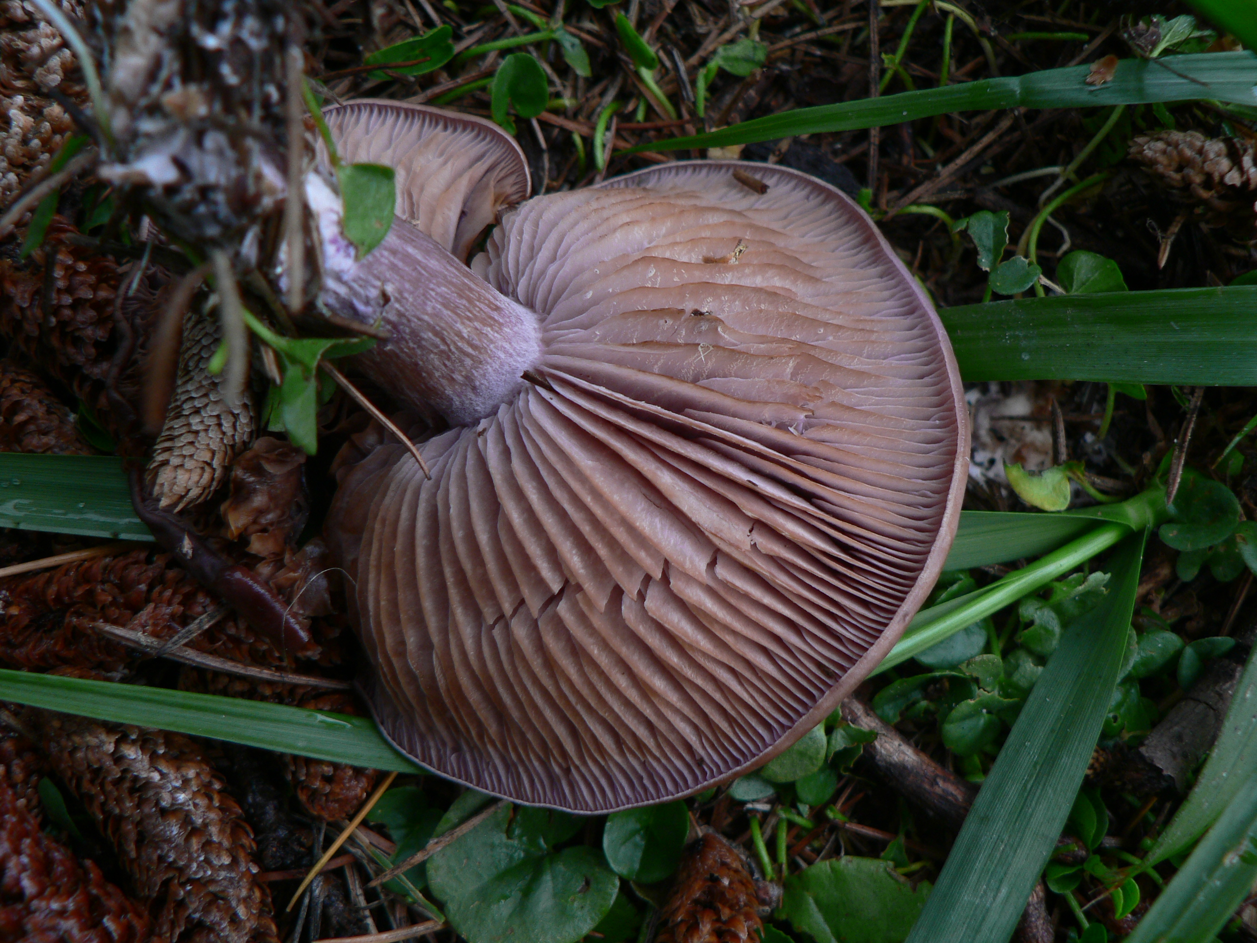 Lepista sordida